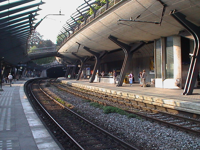 Station Stadelhofen in Zürich, Switzerland